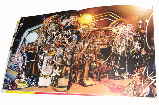 Double page showing inter-active installation titled 'People Love Machines' from Crossfields: Access: In almost every picture (Wire Design Ltd) ISBN 9780954985608